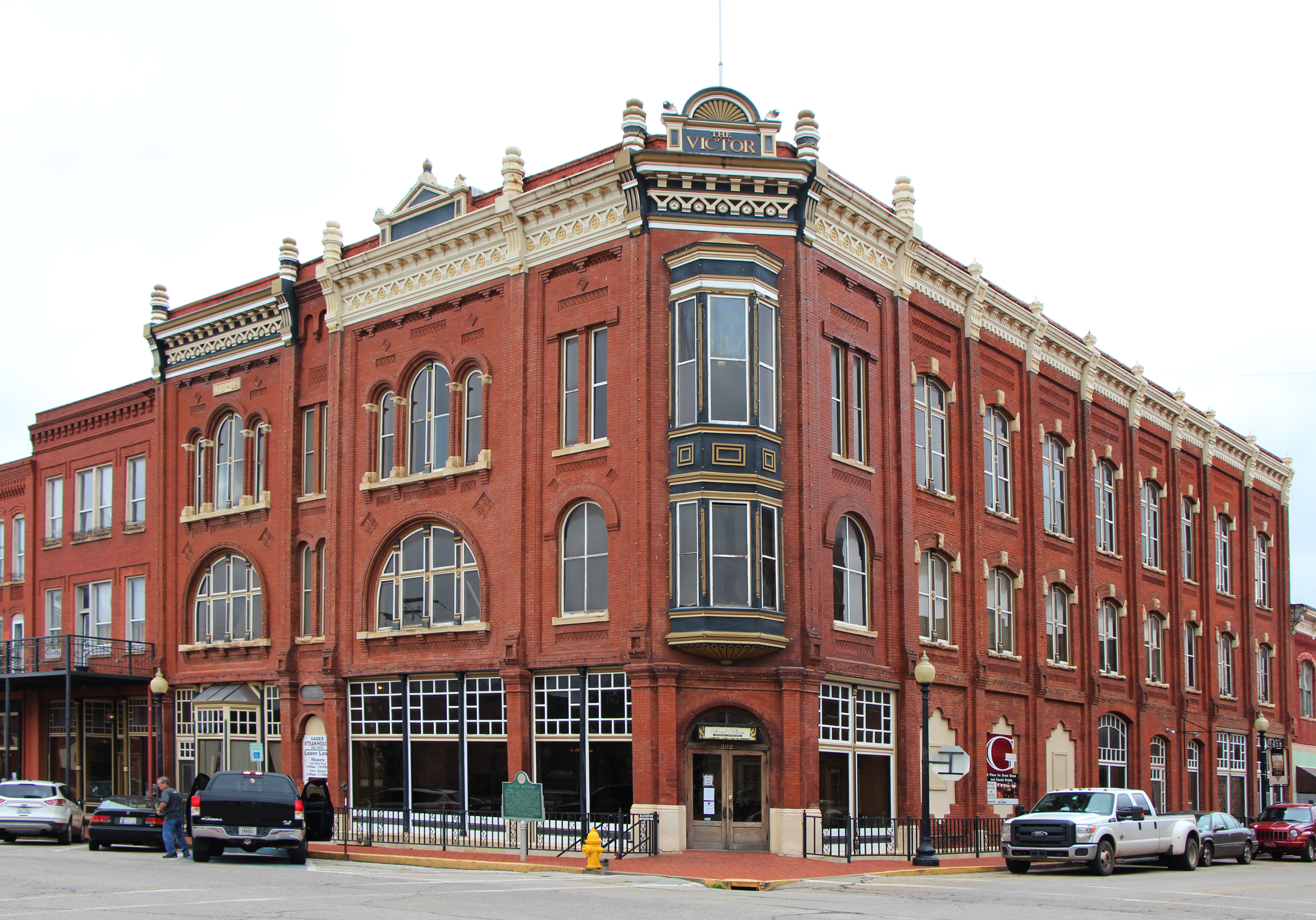 Victor Block, Guthrie, Oklahoma